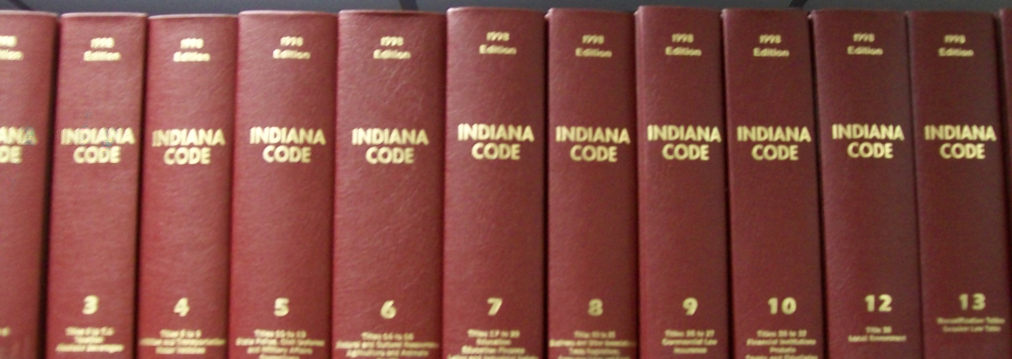 1998 copy of the Indiana Code, the criminal and civil law of Indiana